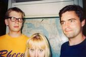 Ed Kemper Trio